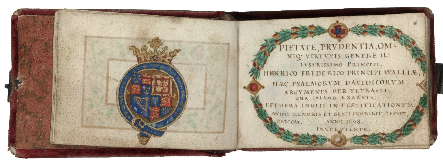 The dedication to Henry Frederick, Prince of Wales, in Esther Inglis' Argumenta psalmorum Davidis